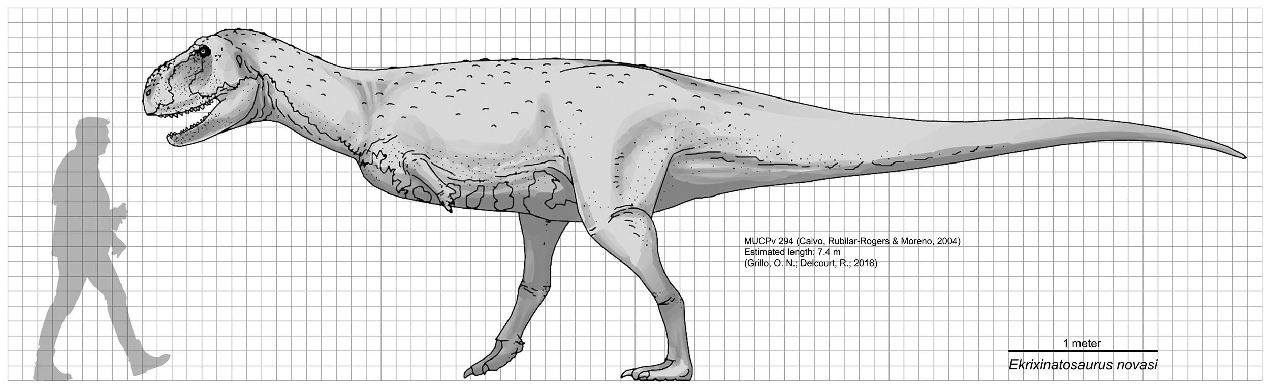 Scale diagram of Ekrixinatosaurus novasi.